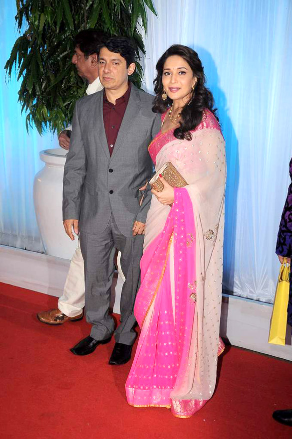 Dr Shriram Nene, Madhuri Dixit at Esha Deol's wedding reception